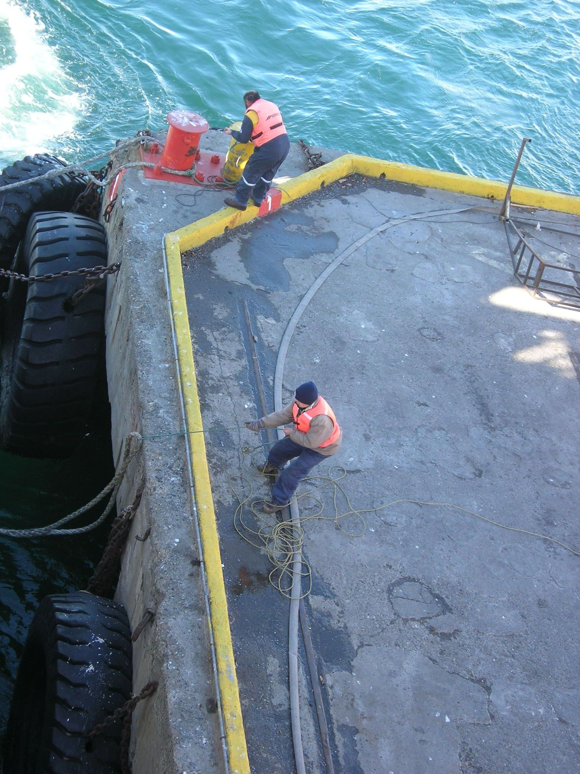 Description = Lamaneur à Punta Arenas ( Chili ) Source =Photo taken by Remi Jouan Date =Avril 2006 Author =Remi Jouan